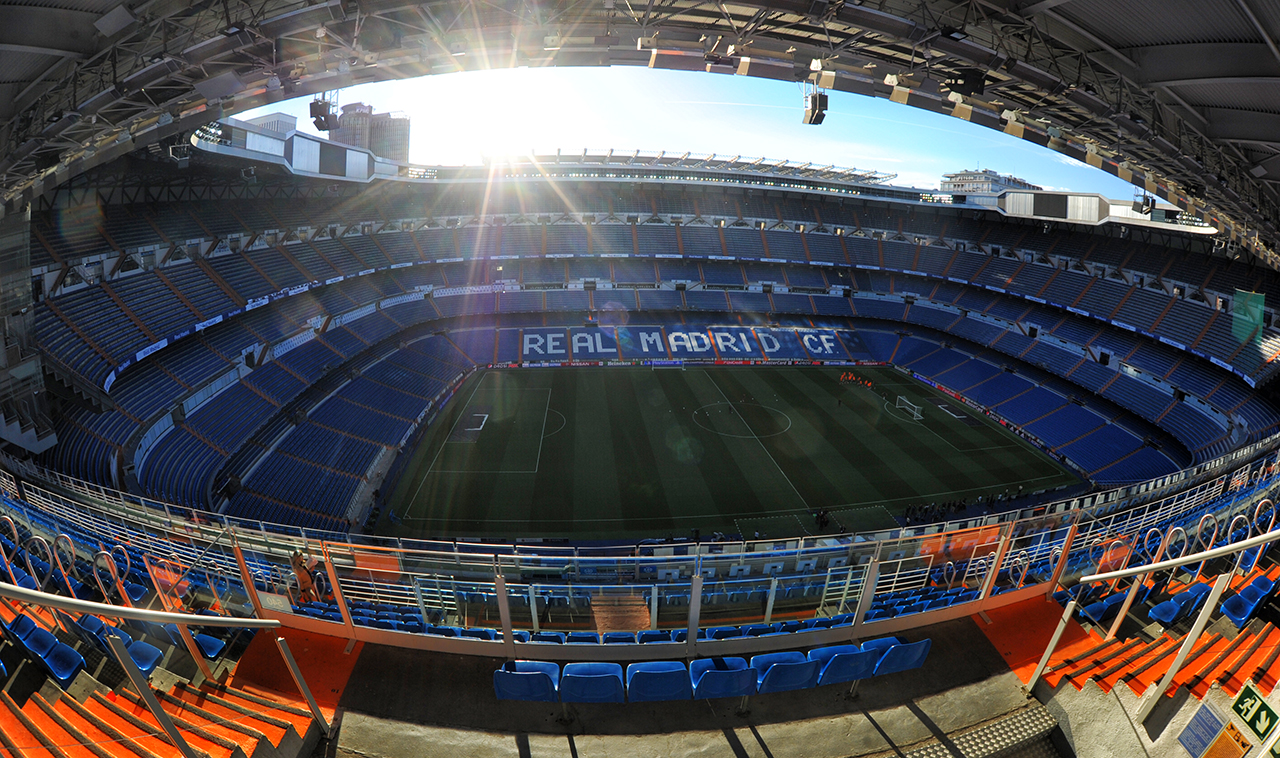 Santiago Bernabéu Stadium in Madrid, Spain